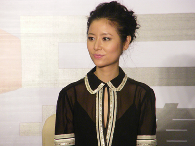 Ruby Lin at press conference of her 10th anniversary in Beijing, China, on Jan 22nd, 2008.